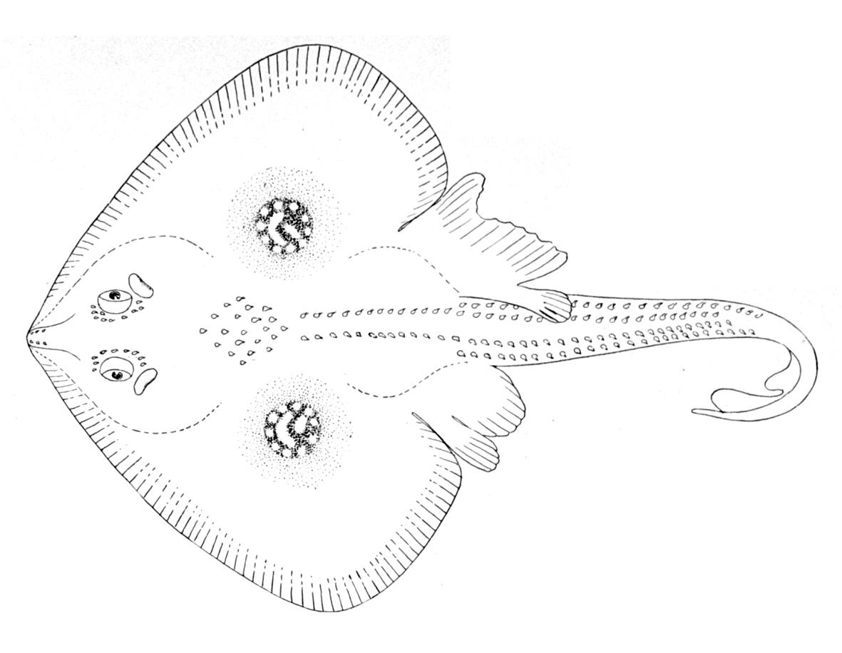 The cuckoo skate (Leucoraja naevus), a species of hardnose skate (Rajidae).